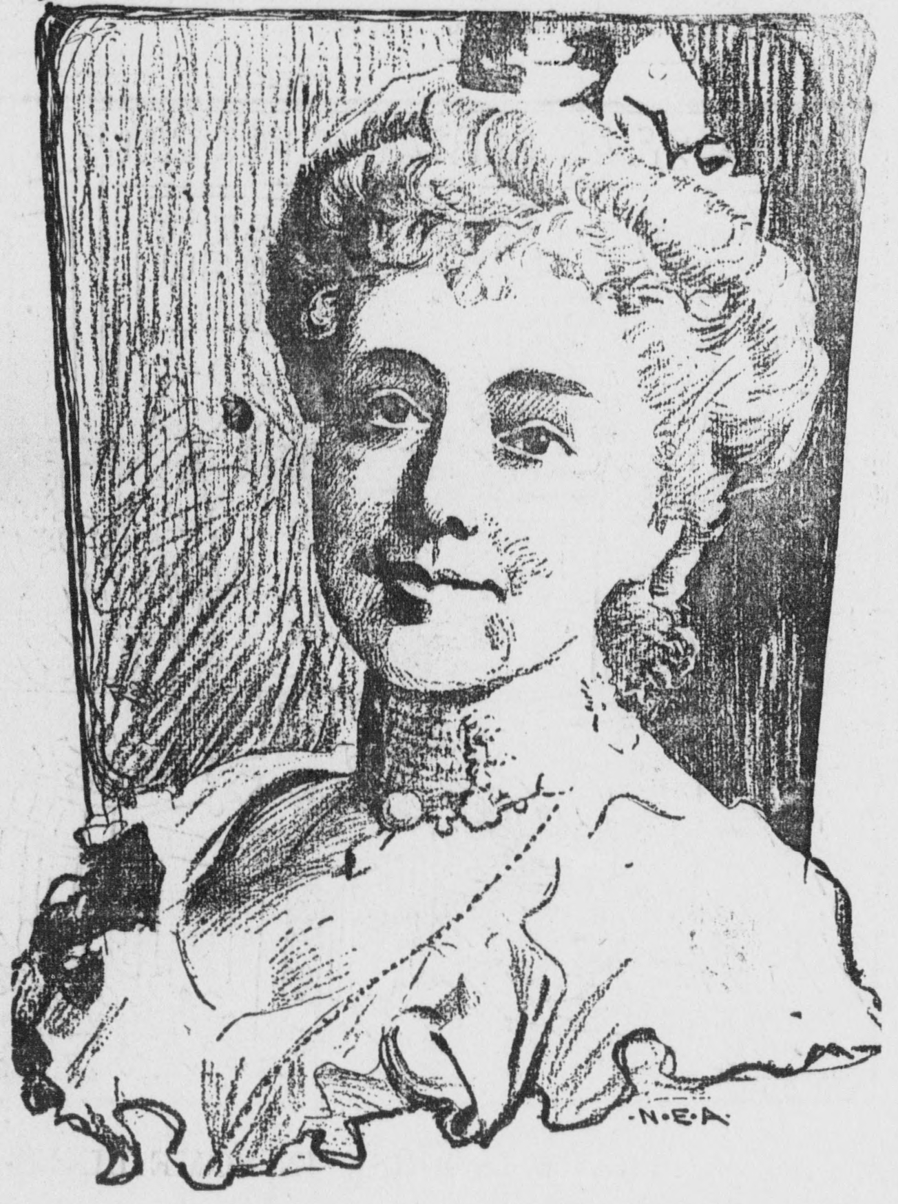 Caroline Dutcher Sterling Choate was the wife of American diplomat Joseph Hodges Choate.